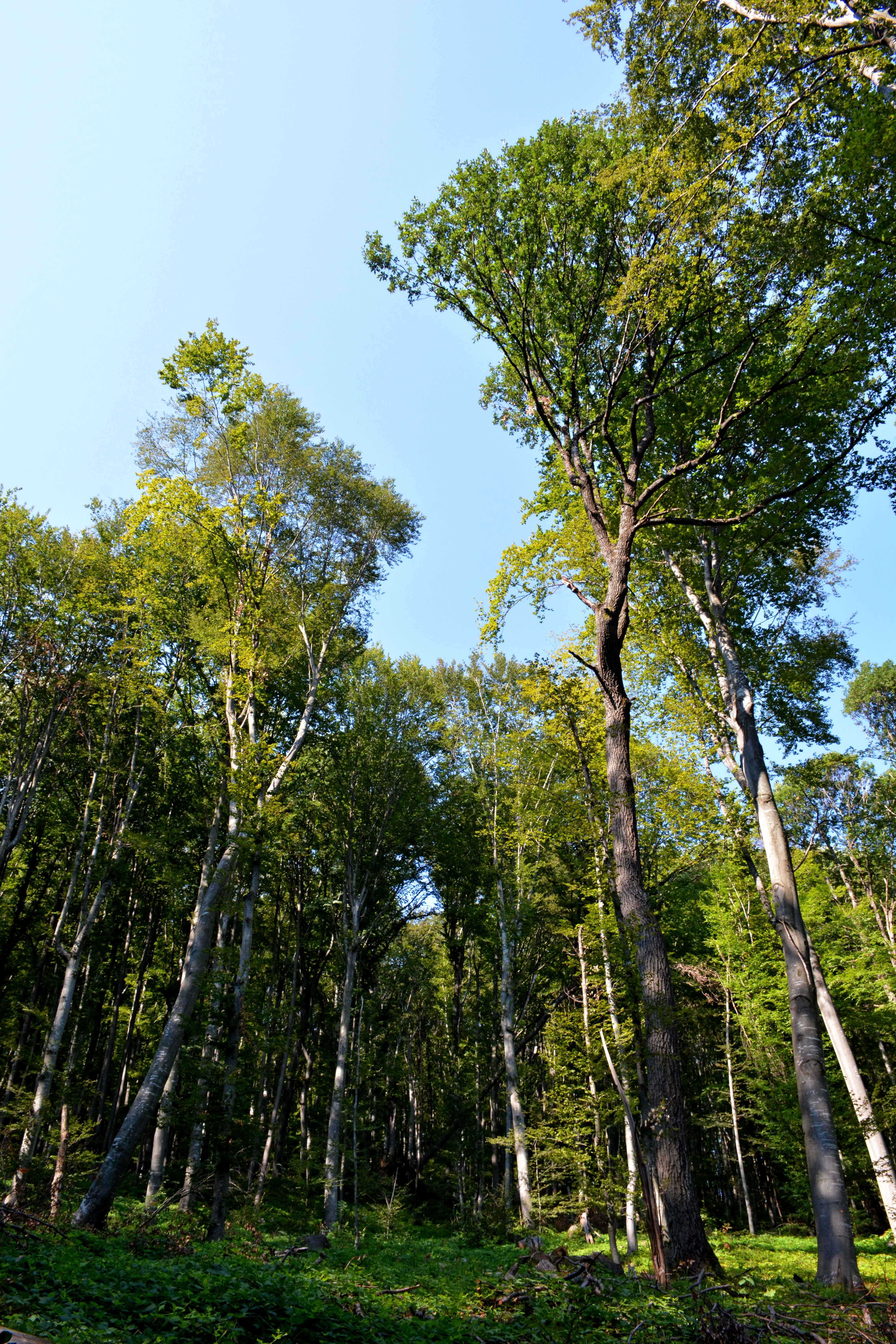 It's a forest in Bulgaria.